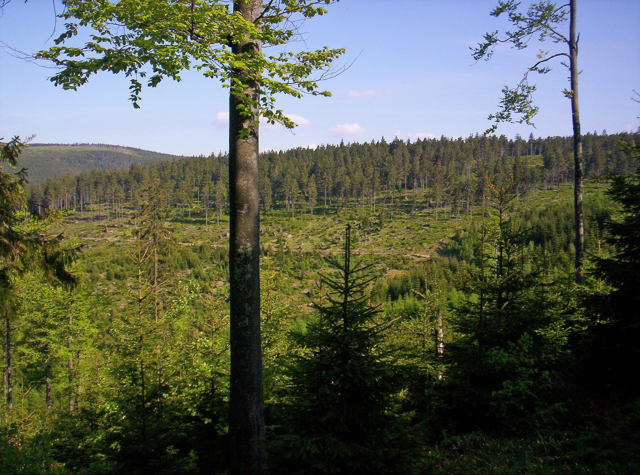 Jawornicka Kopa mountain, Bialskie Mountains, Sudety Mountains, Poland